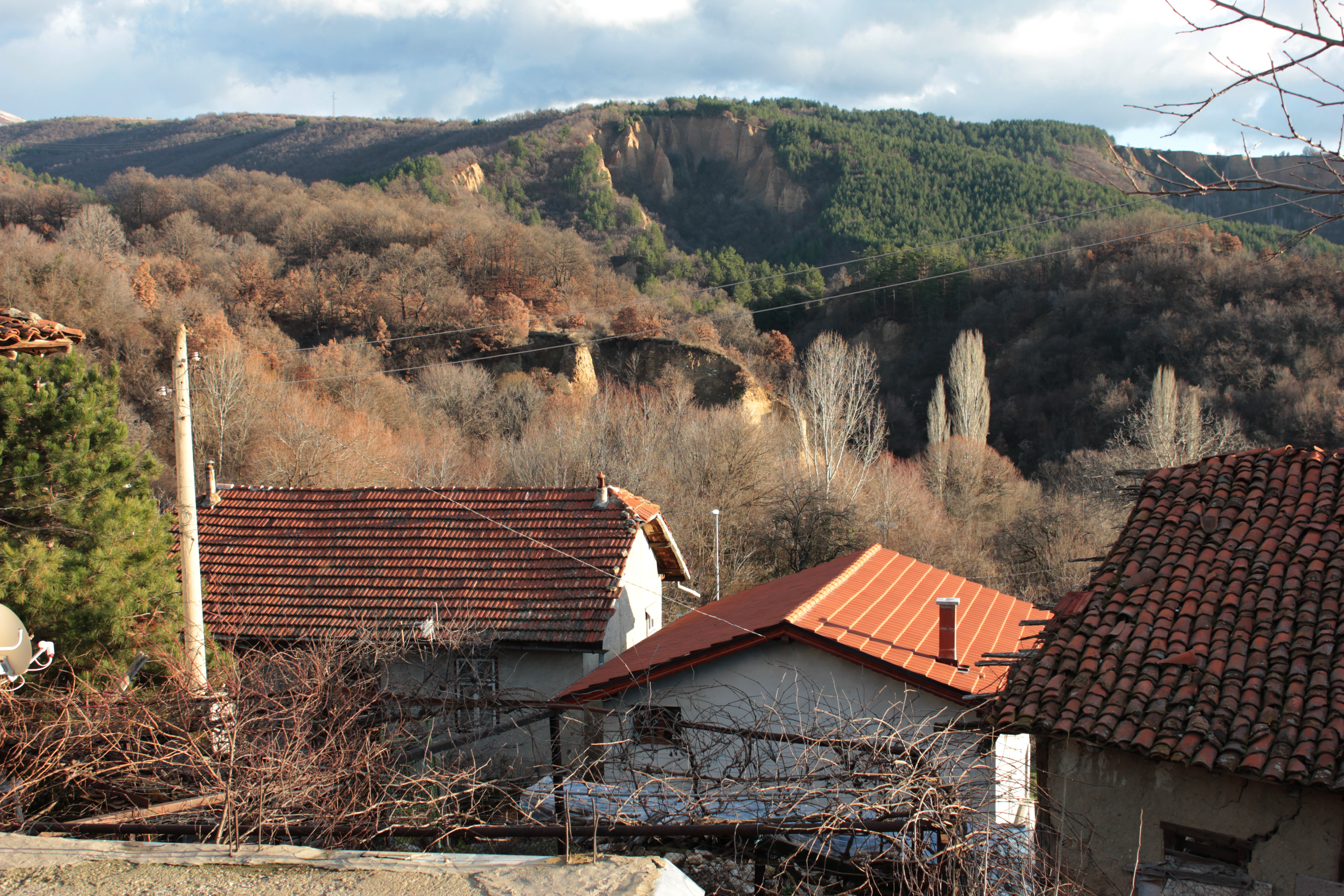 View from Badino Central square